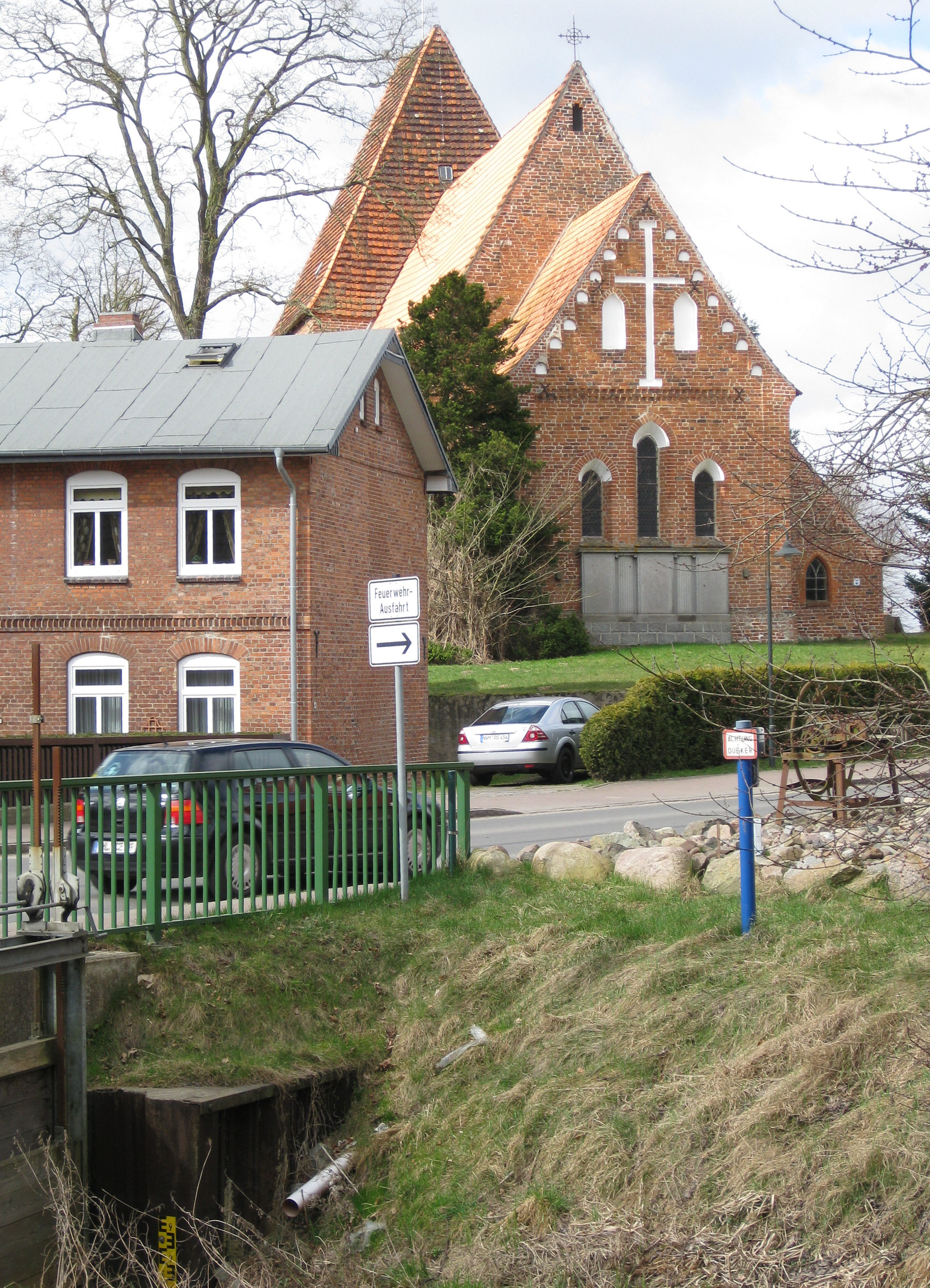 Church in Herrnburg, municipality of Lüdersdorf in Nordwestmecklenburg. In front of the picture sluice of Palingen creek coming from Palingen. The former water mill is on the other side of the road.